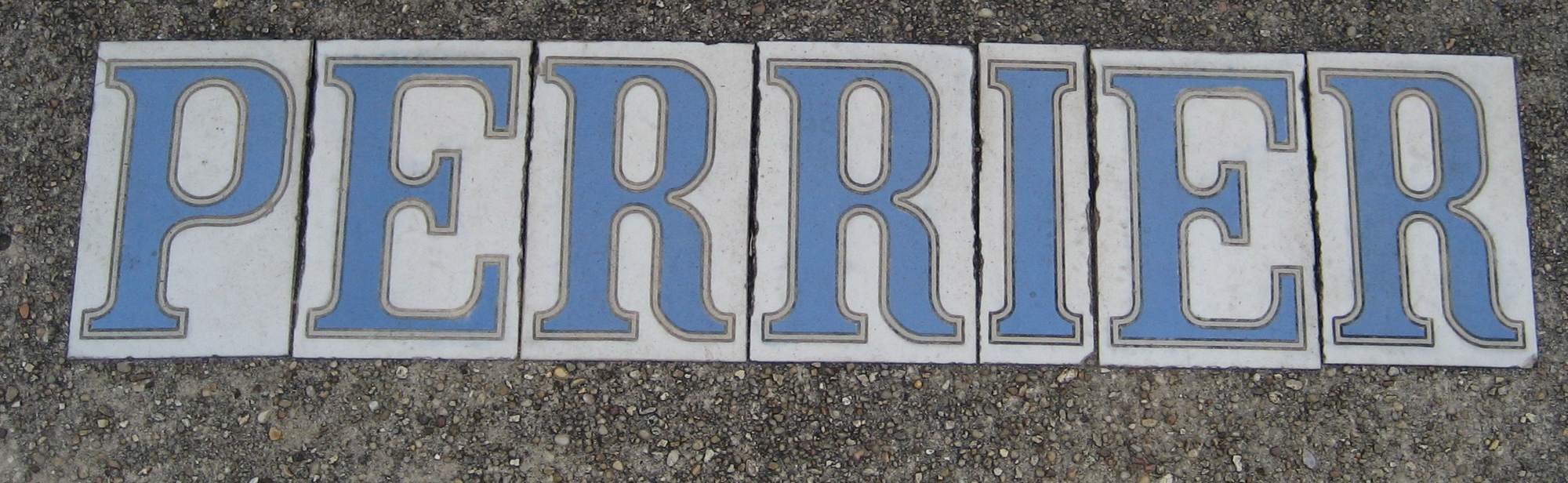 Old sidewalk street name tiles for Perrier Street, New Orleans.